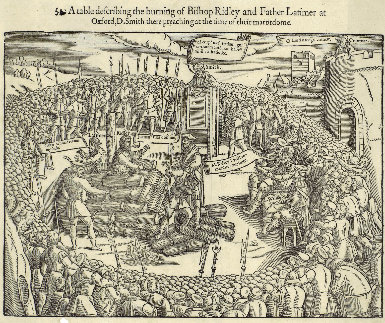 Hugh Latimer and Nicholas Ridley martyred by being burnt at the stake. John Foxe's book of martyrs. 1563 edition. When looking at these images which portray ideas such as martyrdom it is always interesting to know how historical the depiction is, in this case less than ten years after the event. An X marks the spot in Broad St. Oxford where they were burnt when it was the Town Ditch outside the walls. St Michael at the Northgate is now hidden behind a row of houses and it is in this Saxon Tower ( that the two martyrs were imprisoned before being burnt. You will notice a Saxon tower (their prison) in the background of the print. Oxford City Museum shows a barbican at this point in the walls in a map of 1578. So by and large this seems to show it like it was.